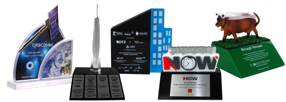 Deal toys in all shapes, sizes and Industries